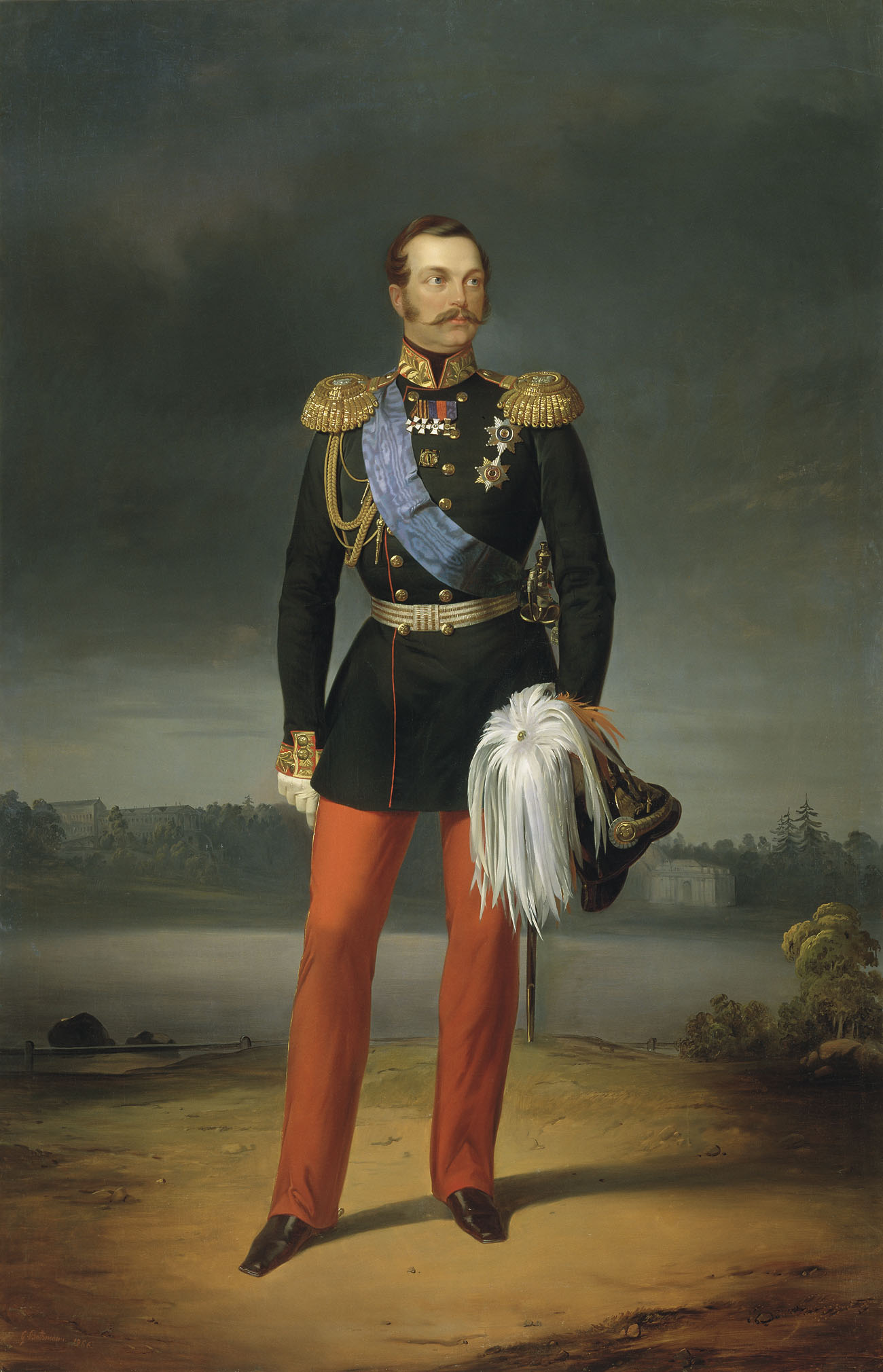 Artist: Yegor Botkin Title: Portrait of Alexaner II Date: 1856 Medium: oil